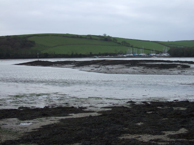 The Salt Stone from Wareham Point The Salt Stone is an area of rock, isolated at high tide, off Wareham Point, where Frogmore Creek (on the left) joins the main Kingsbridge Estuary, which is between the rock and Lincombe Boat Yard beyond. The estuarine sediments here are noted for a very rich invertebrate fauna, and the Salt Stone is "one of the few British localities for the red alga Chondria coerulescens" ( and ).